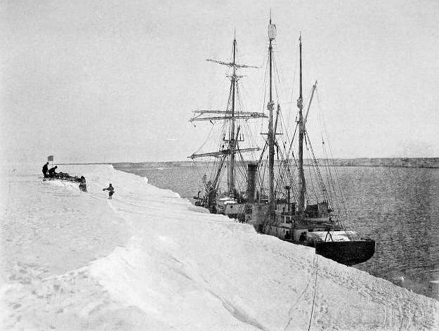 Photographs of the Nimrod Expedition (1907-09) to the Antarctic, led by Ernest Shackleton